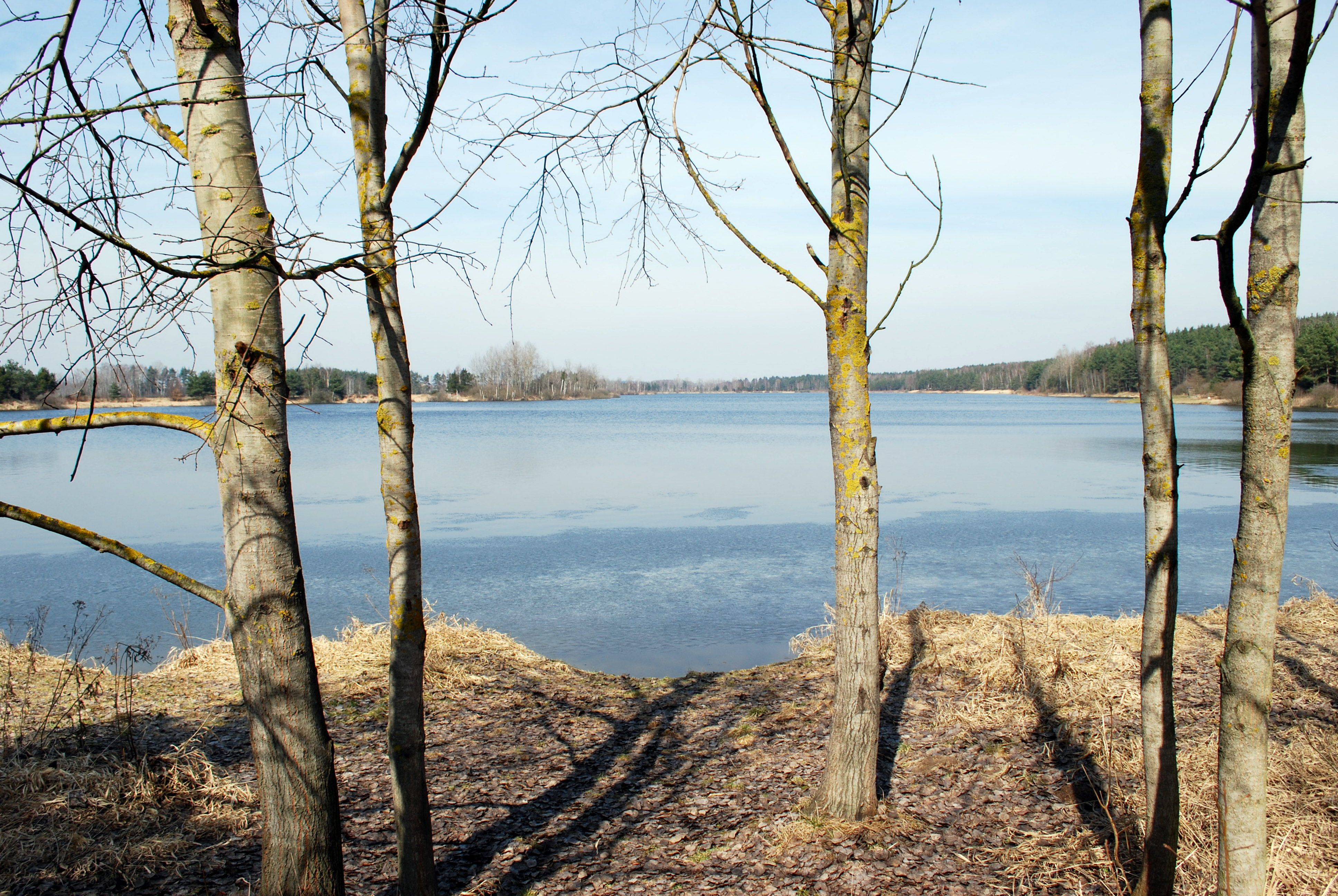 "Vlkovská pískovna" near Vlkov village, Tábor District, Czech republic. An old sand mining place. This photograph was taken within the scope of the 'Czech Municipalities Photographs' grant. - OpenStreetMap(Info)